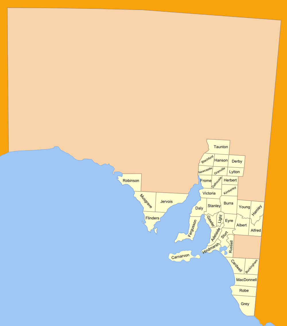 37 counties of South Australia in 1886, based on public domain old map in National Library collection. They are used only for cadastral purposes today, but there are several more added (now 49) - they still do not cover the whole state though. See also: 1893 map with 45 counties